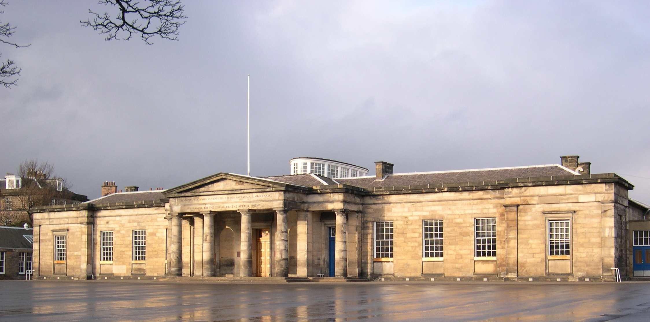 Edinburgh Academy Henderson Row, Edinburgh, Scotland Photograph taken on 16 January 2005 by Macumba.